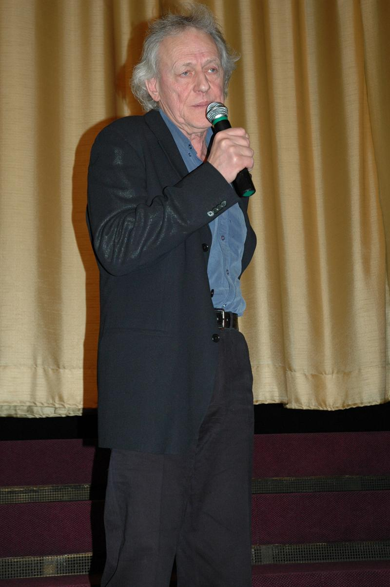 Swedish filmdirector Kay Pollak after the premiére of his "Så som i himmelen" in Berlin 2005.